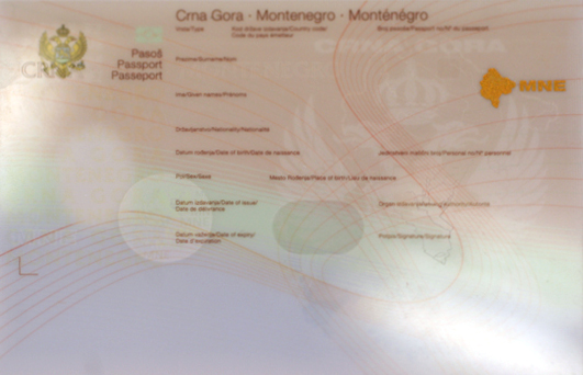 Picture of Montenegrin passport